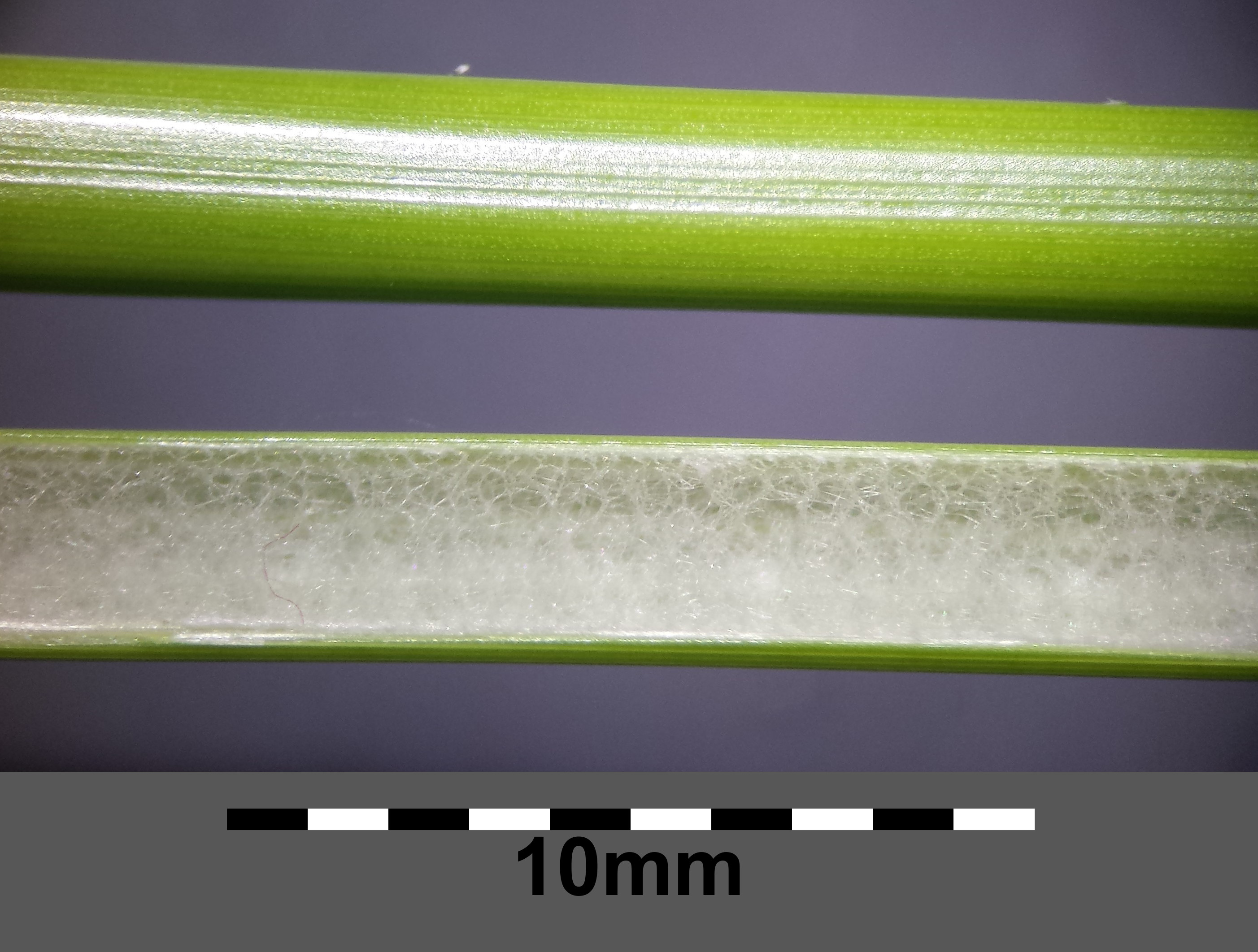 Glossy, grass-green stipe (cut through) with continuous pith Taxonym: Juncus effusus ss Fischer et al. EfÖLS 2008 ISBN 978-3-85474-187-9 Location: Neue Donau, district Korneuburg, Lower Austria - ca. 160 m a.s.l. Habitat: shore